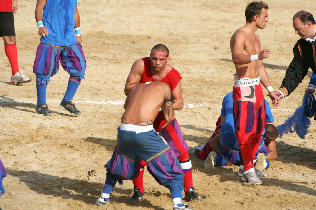 Calcio Storico - 24.06.2008 - Azzurri Vs. Rossi